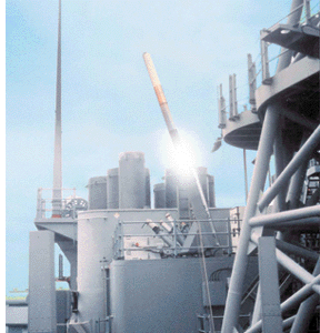 Nulka active missile decoy; test firing.